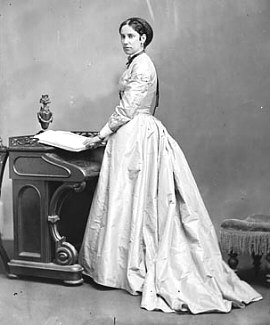 Lady Susan Agnes Macdonald, wife of Sir John A. Macdonald